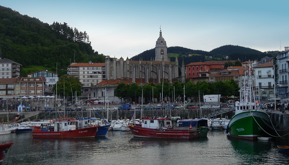 Port of Lekeitio